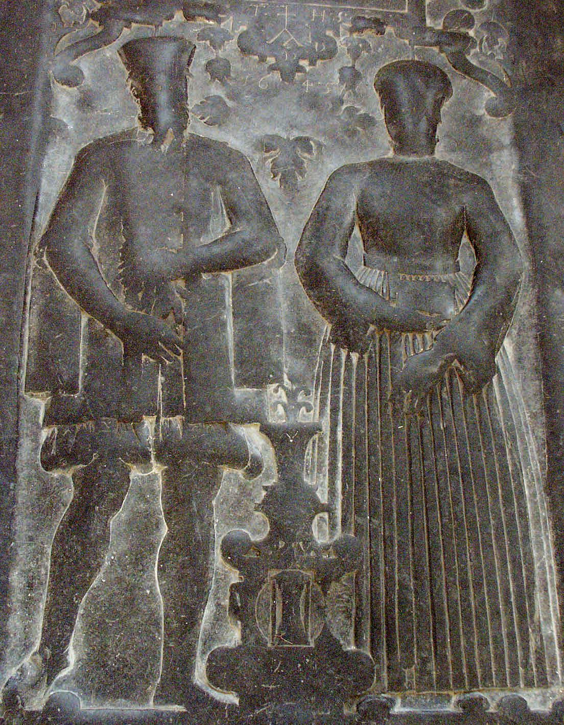 Gravestone of Niels Kuntze, dead 1568, in the Church of Saint Peter in Malmö, Sweden (then Denmark)